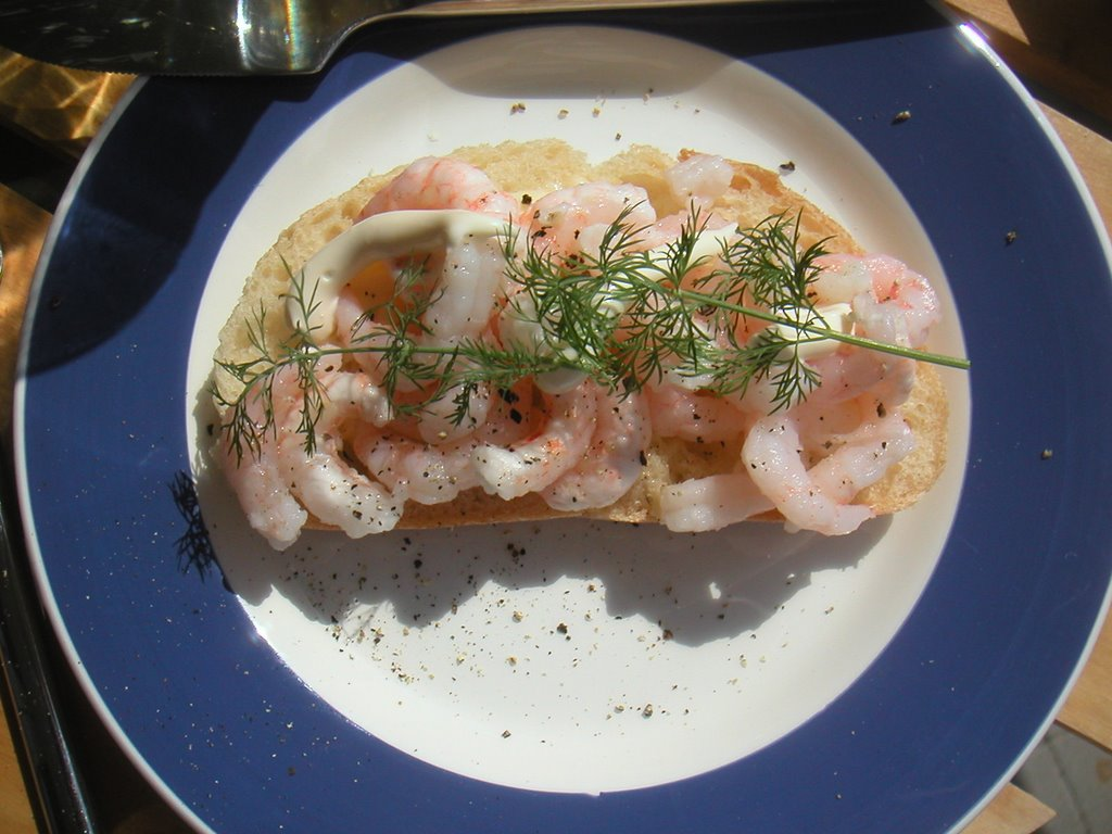 Smørrebrød. White bread with boiled shrimp, mayo, cracked pepper and dill.